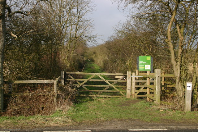 Monks Wood National Nature Reserve